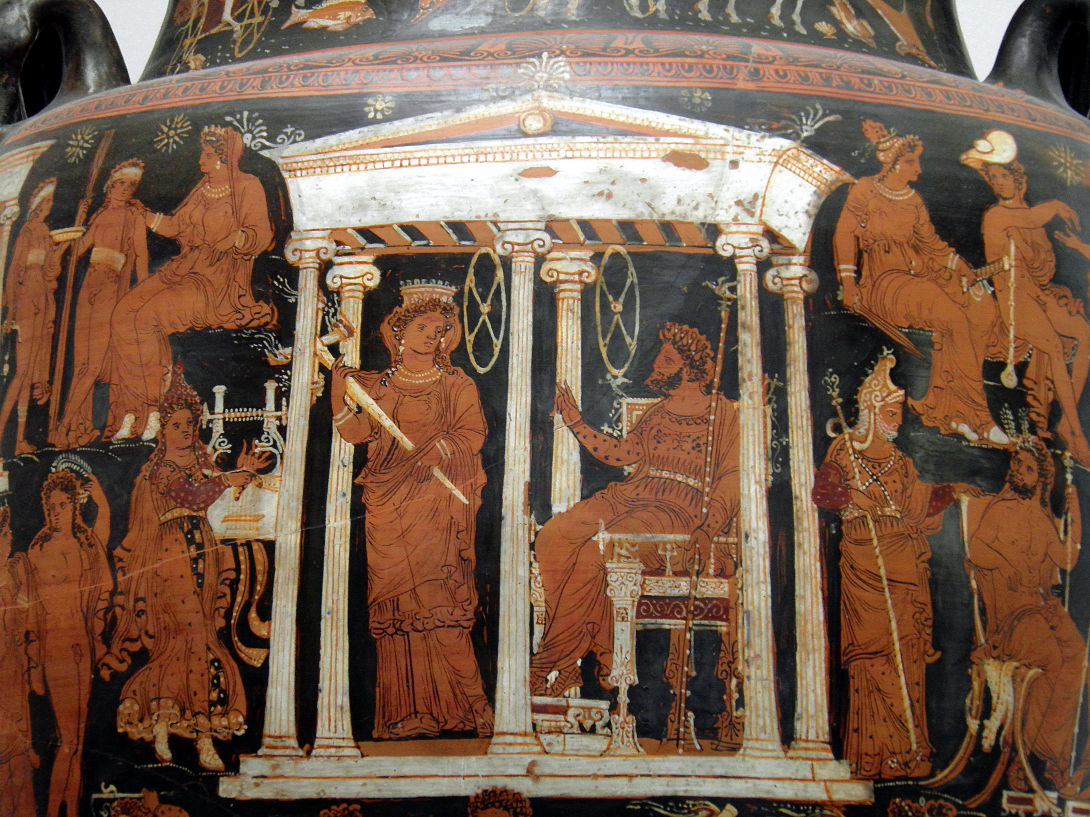 Hades sits enthroned in the palace beside a standing Persephone, who holds a four-headed Eleusinian torch. The god wields a bird-tipped staff.